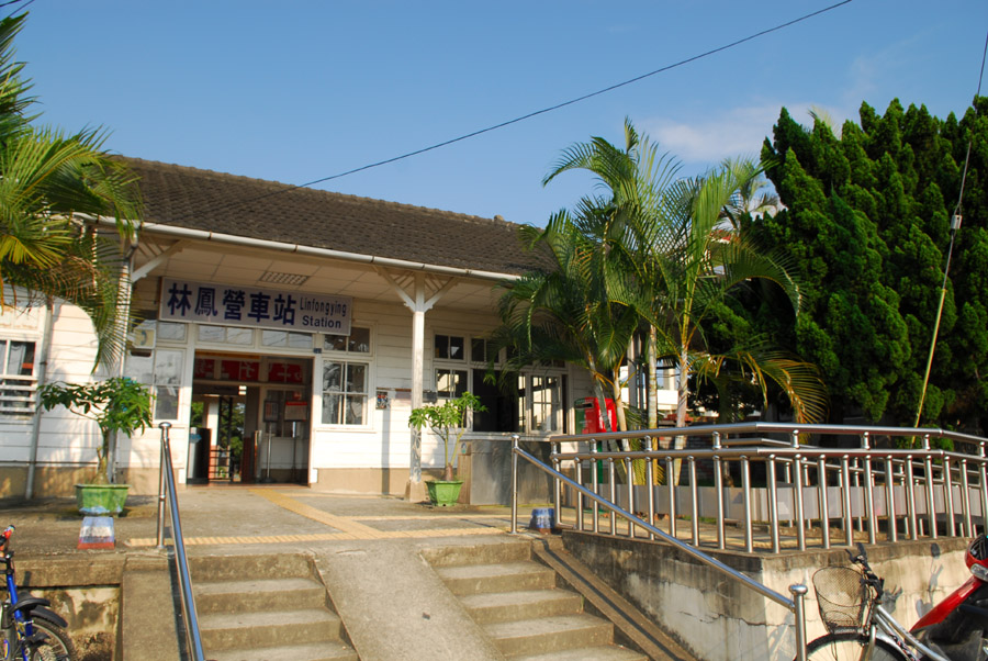 LinFongYing Station is a local train station of Taiwan's Western main rail line. Although it's the only station within the boundary of LiouJia Township, TaiNan County, the station itself is not positioned at the center of the township.